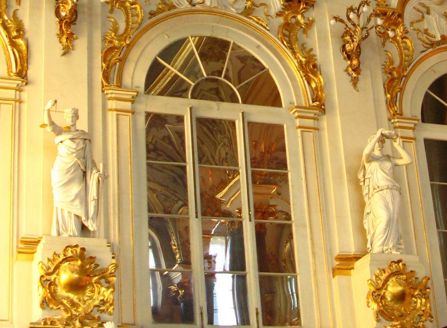 Statue of Justice and Statue of Wisdom by sculptor Alexander Terebenev